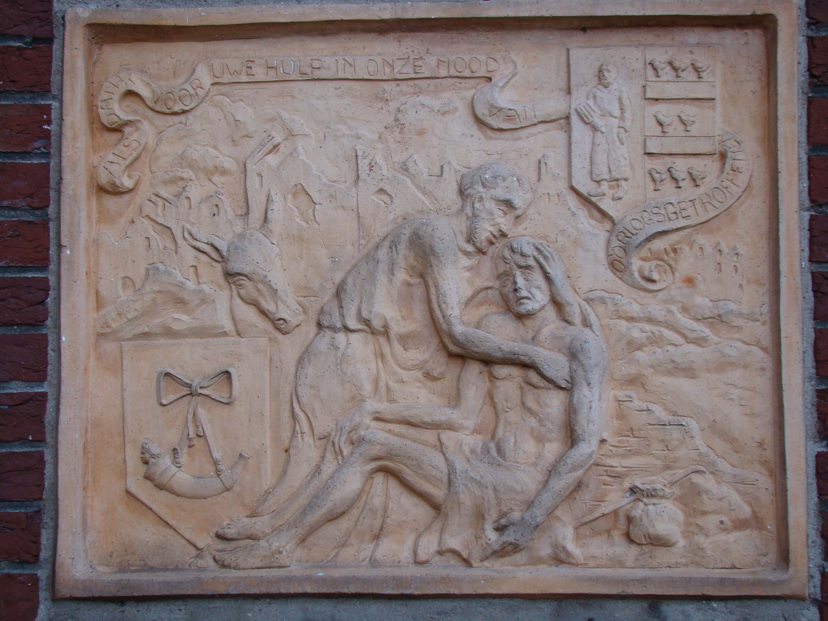 Symbols of the Netherlands